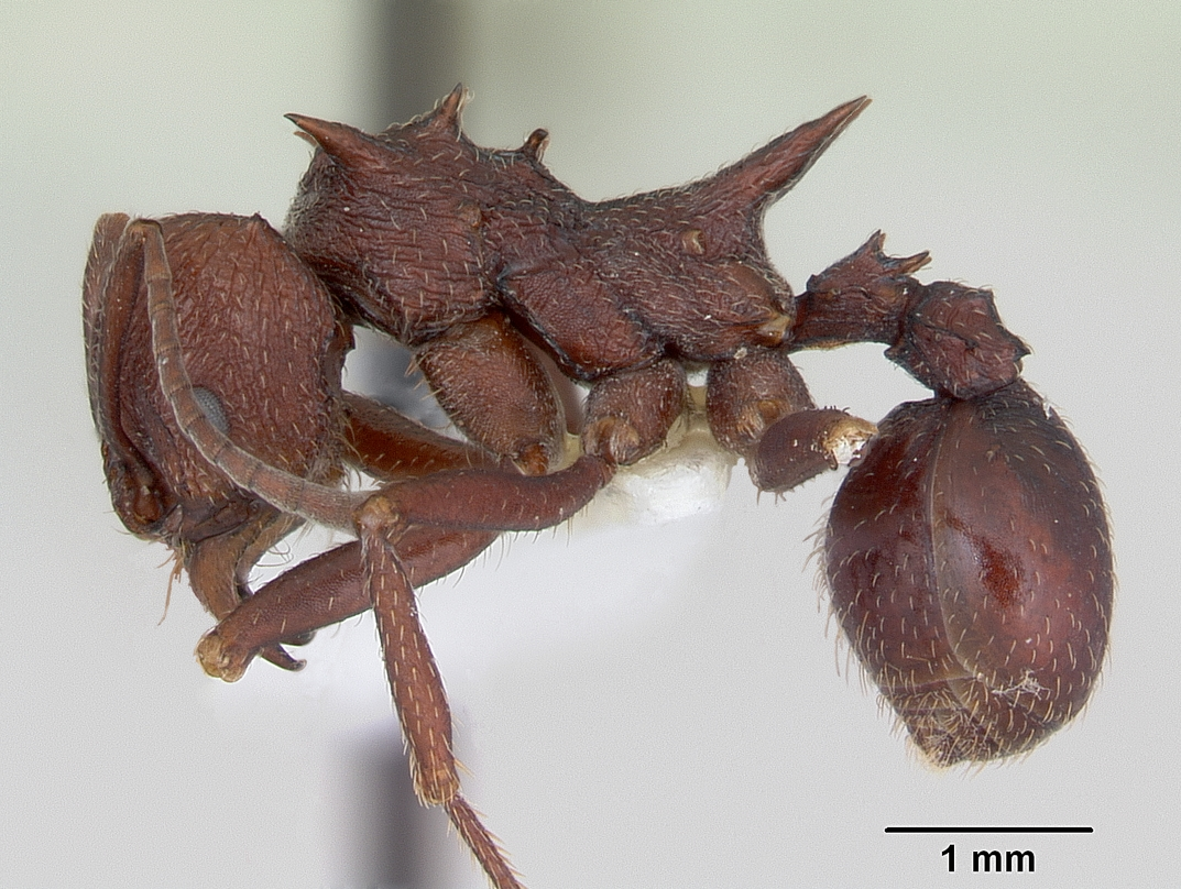 Profile view of ant Acromyrmex striatus specimen casent0173803.